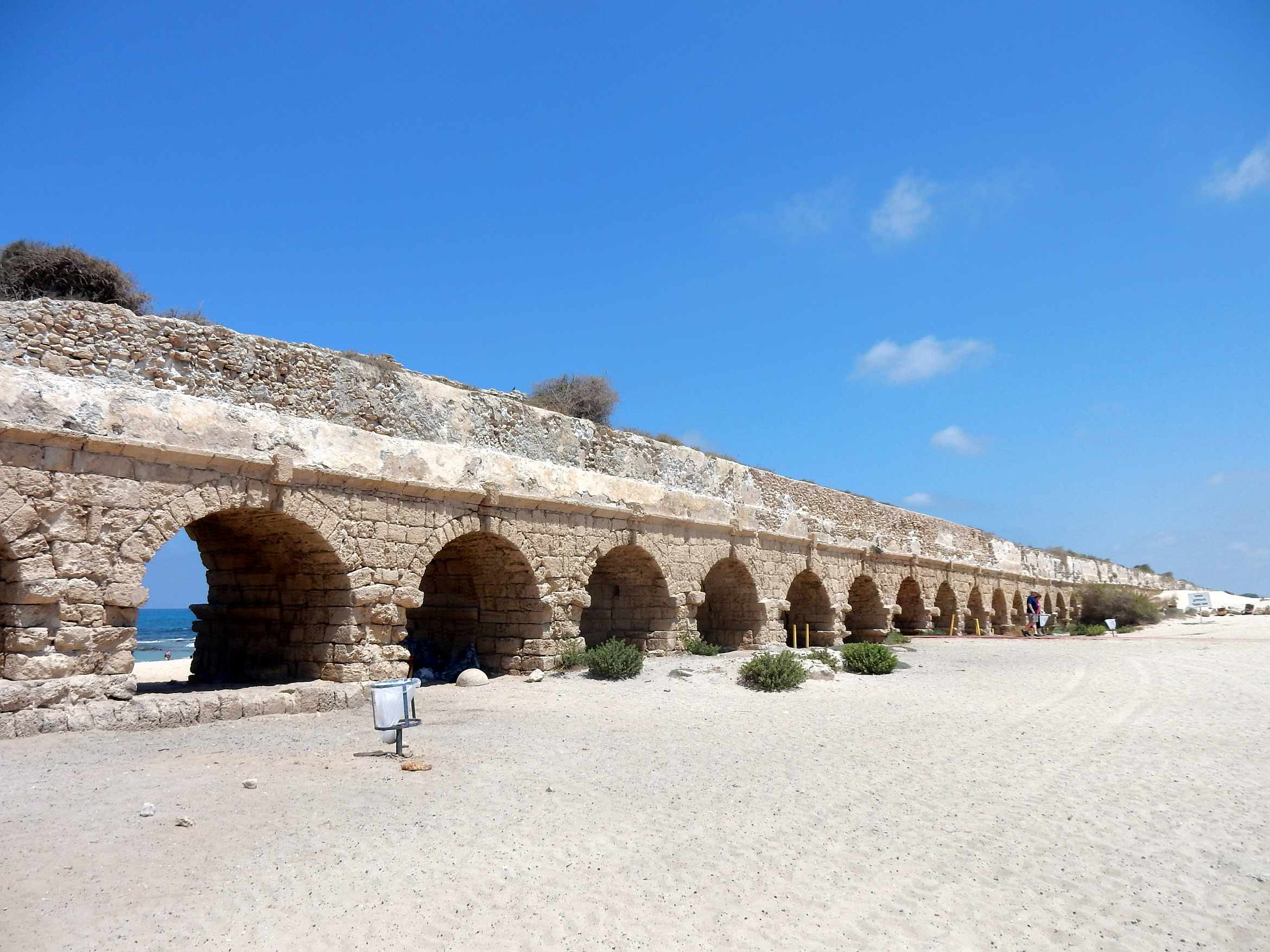 The Caesarea Aqueduct is right on the beach. Aquädukt in Caesarea direkt am wunderschönen Strand. You're welcome to use this picture free of charge, as long as you follow the license terms. As a matter of courtesy a link (dofollow links are welcome!) to is much appreciated. Thank you! ————————–—–—–—–—–—–—–—–—–—–—–—–—–—–—– Du kannst dieses Bild gemäß der Lizenzbestimmungen unentgeltlich nutzen. Über eine Verlinkung (dofollow am liebsten) auf freuen wir uns. Danke!